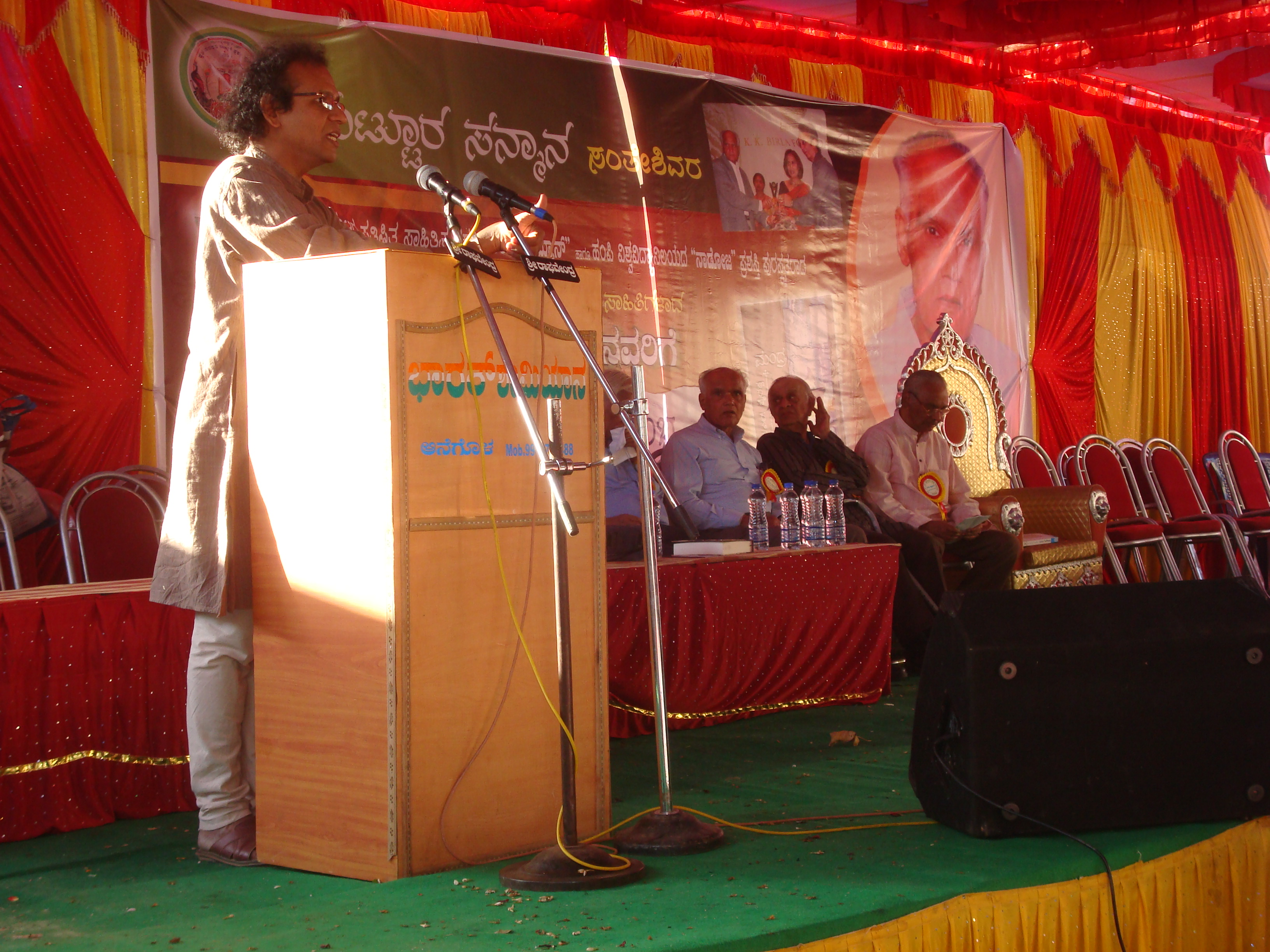 Dr. R Ganesh speaking at Santeshivara during the felicitation of Dr. S L Bhyrappa